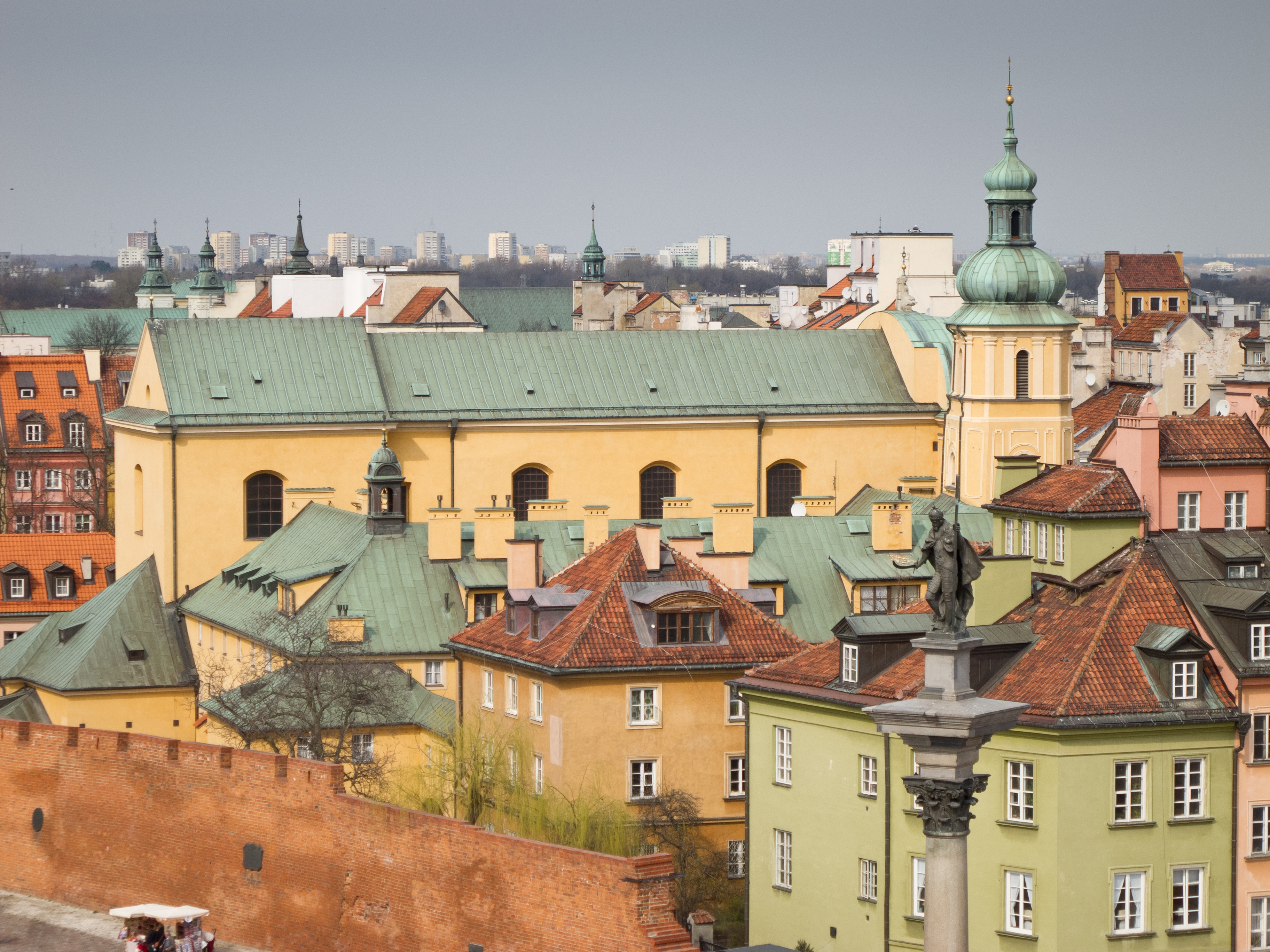 Saint Martin church in Warsaw, Poland.